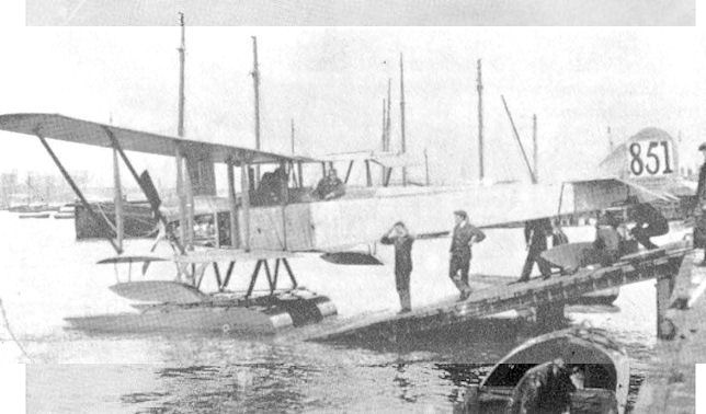 Photo of Sopwith Admiralty Type 860 No.851 samf4u.jpg